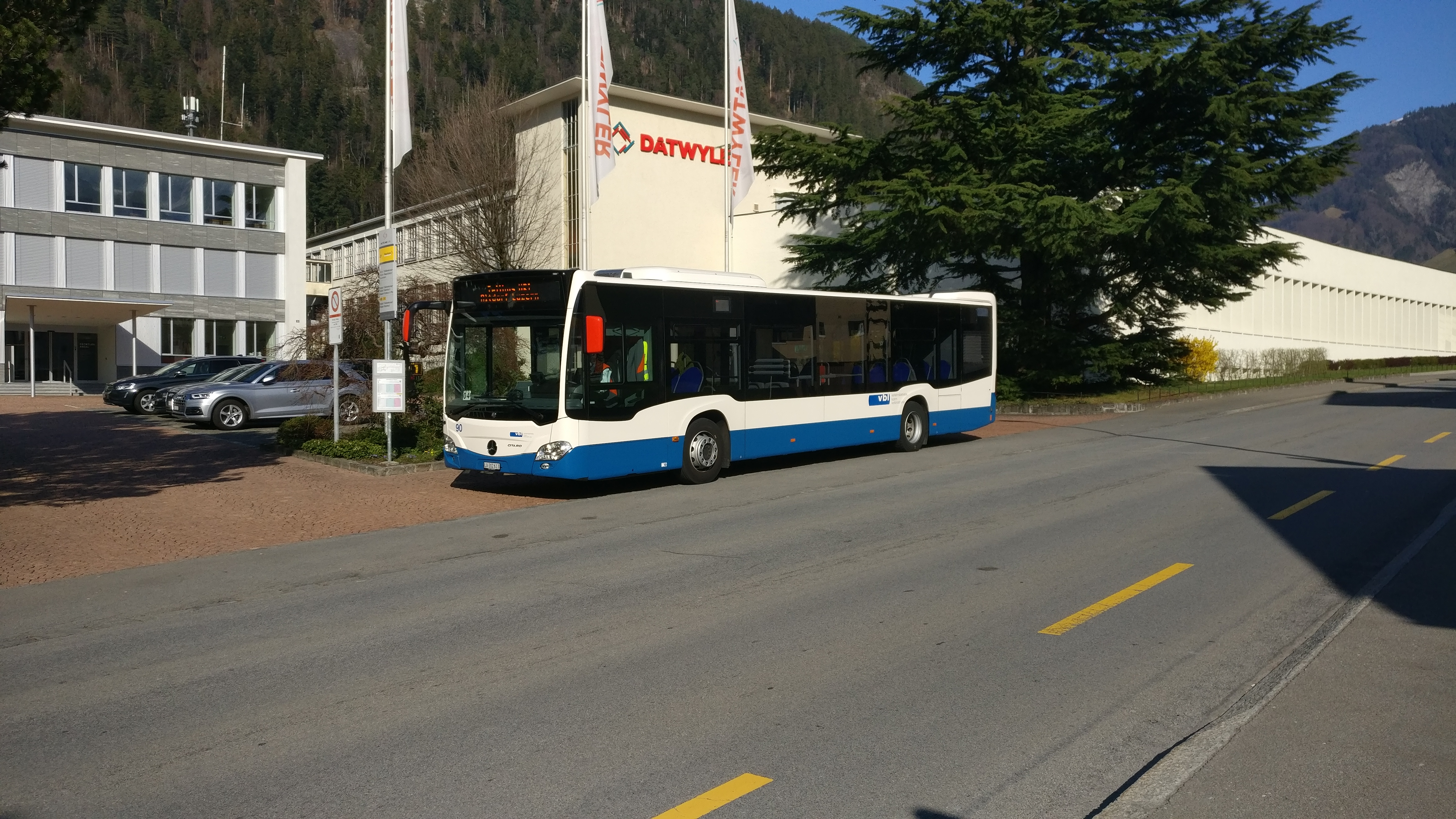 A Mercedes-Benz O530 Citaro 2 of Verkehrsbetriebe Luzern as Tellbus waiting at the Dätwyler AG bus stop in Altdorf UR.